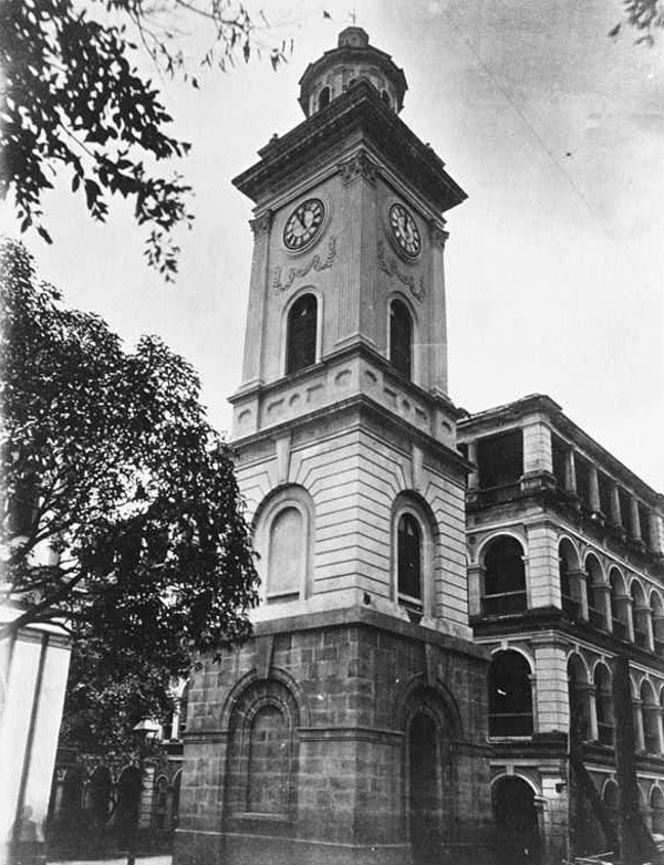 The Clock Tower, Hong Kong, 1880